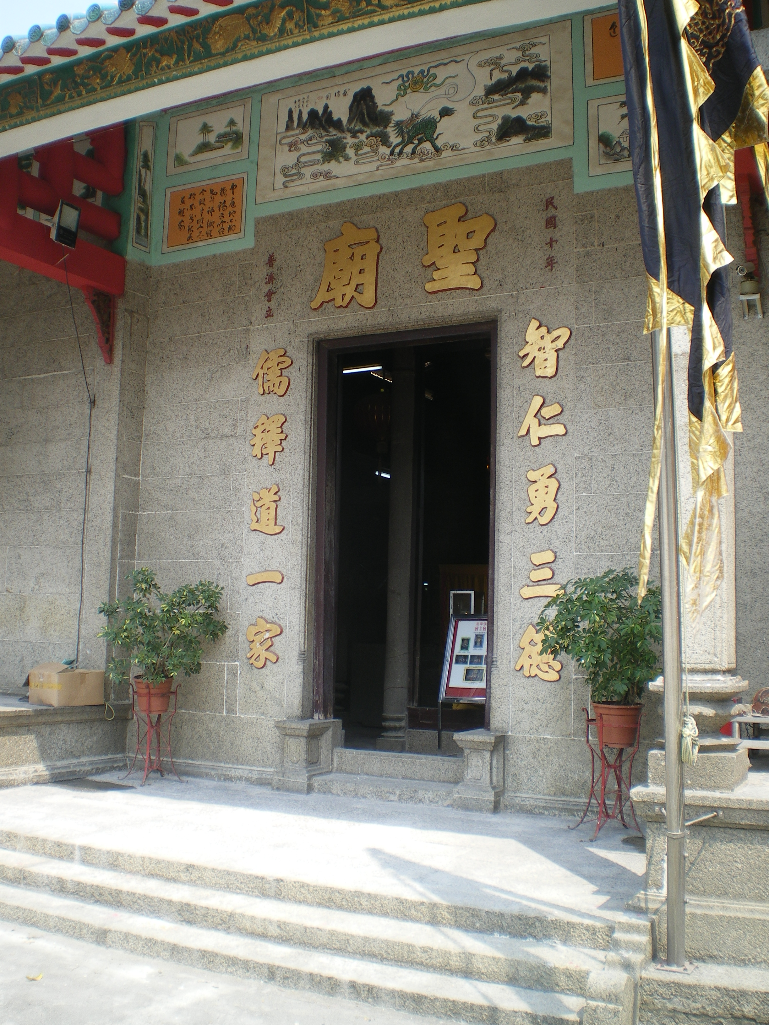 Sam Shing Temple front door